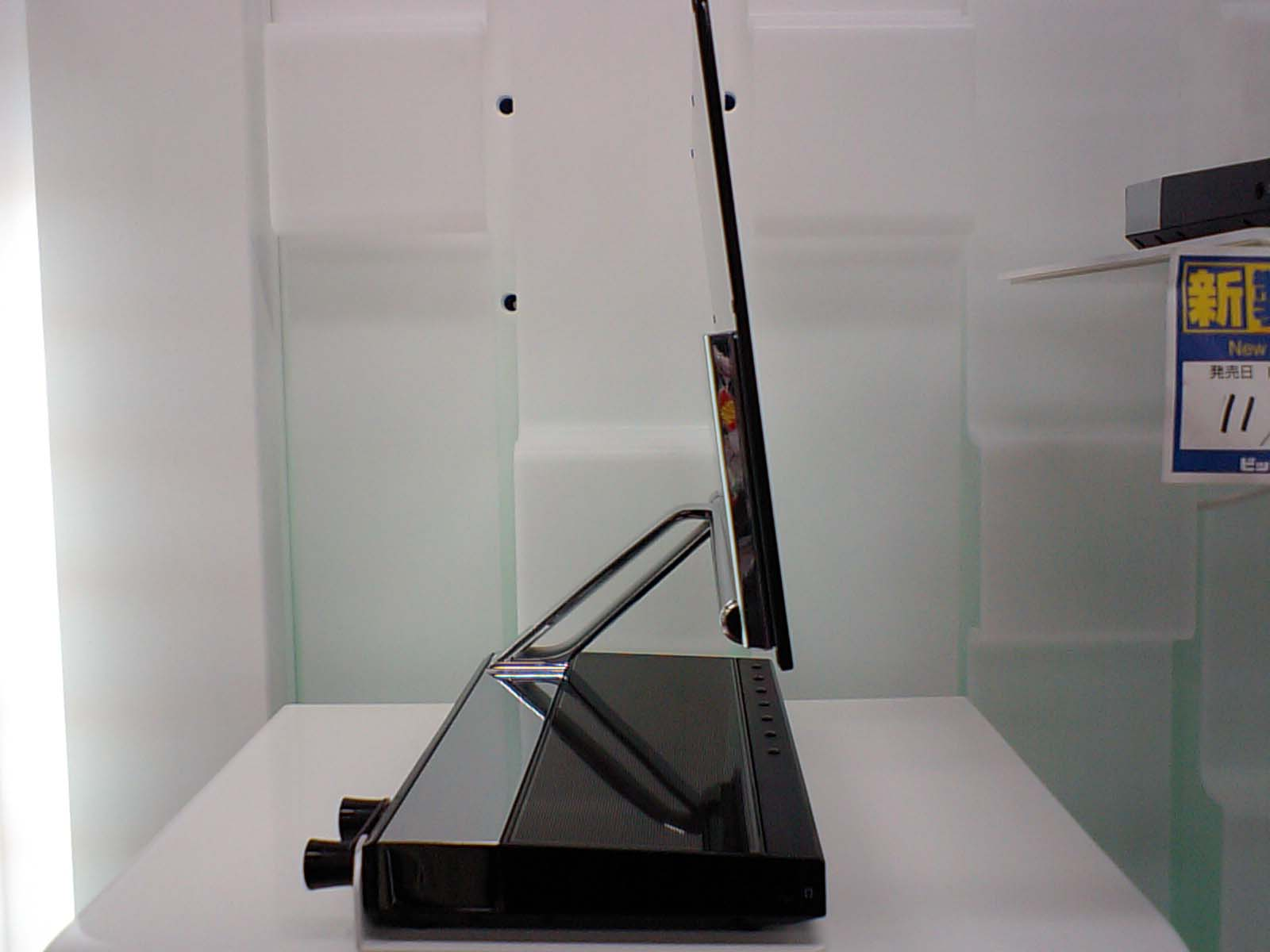 Side view of the Sony XEL-1 television, the first OLED TV (marketed 2007–2010).